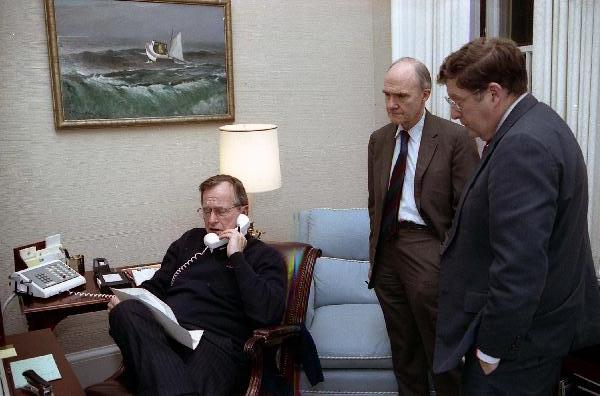 President George H. W. Bush sits at his desk in the Oval Office Study and talks on the telephone regarding Operation Just Cause in Panama as General Brent Scowcroft and White House Chief of Staff John Sununu stand nearby.